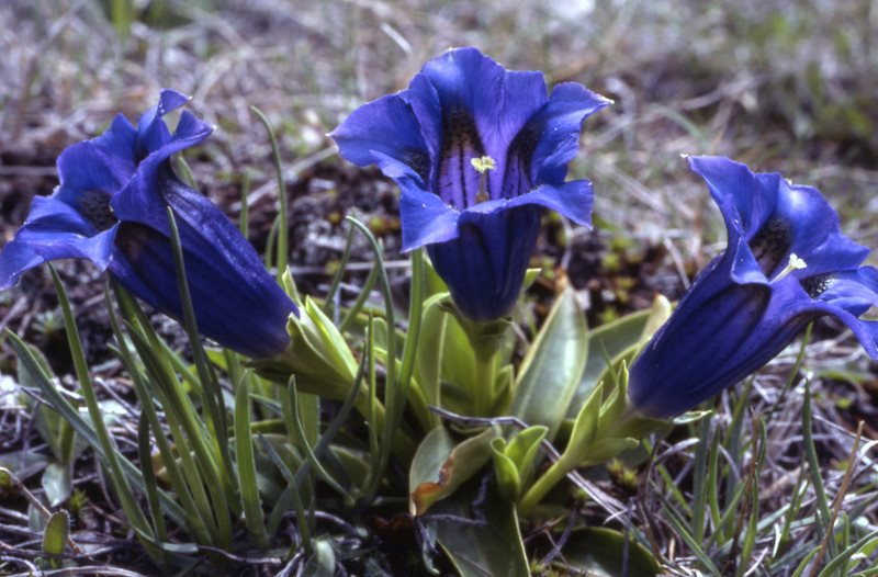 Gentiana kochiana - Flower